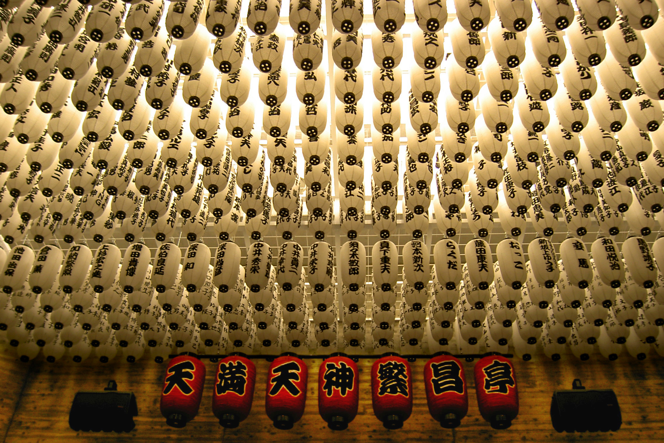 Feb 18, 2007 at 12:55 JST, 天満天神繁昌亭